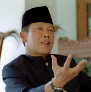 Sutiyoso, former governor of Jakarta and head of the Indonesian BIN